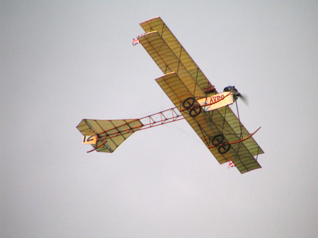 Shuttleworth Collection. I think.